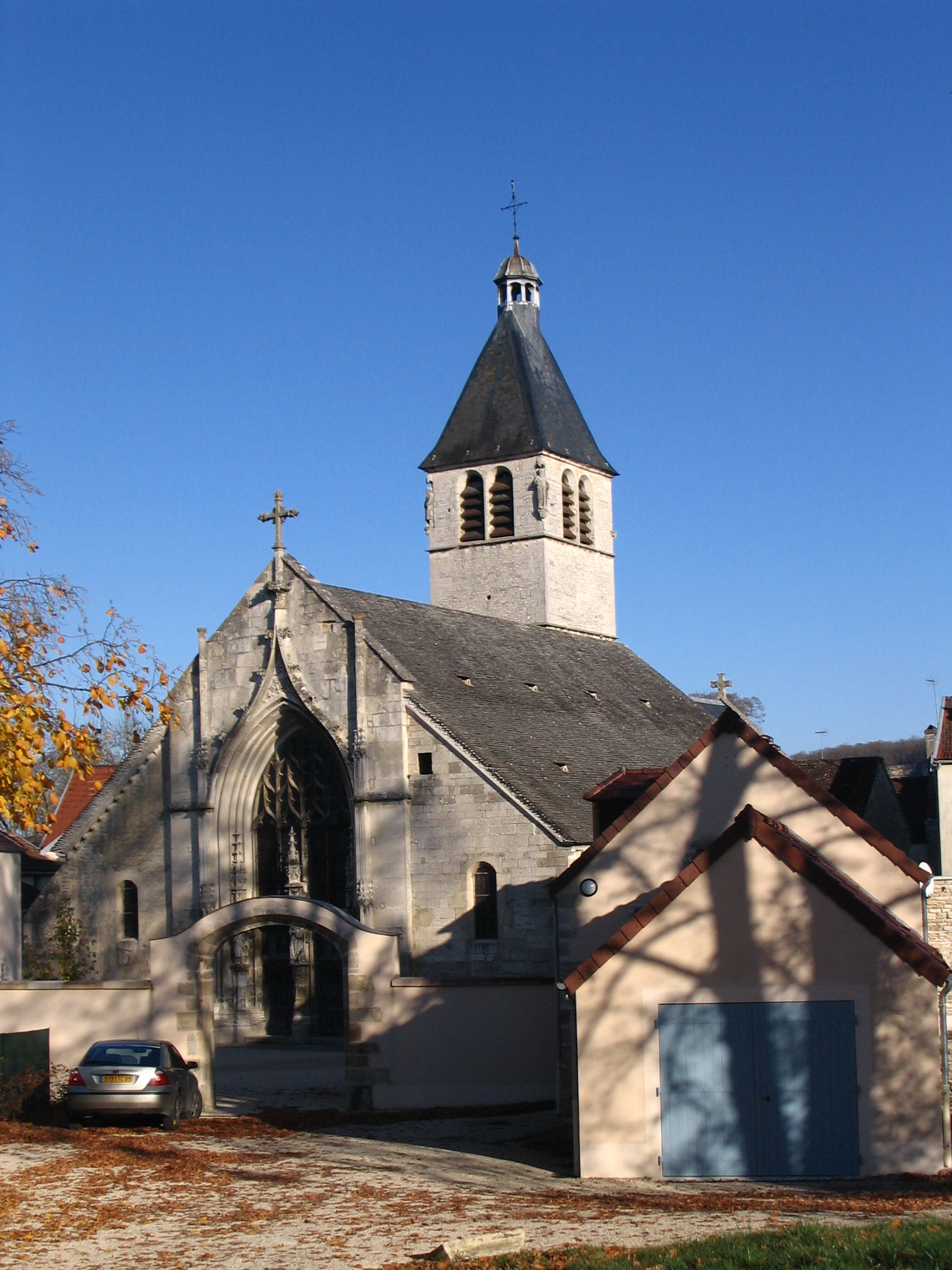 The Saint-Pantaleon Roman Catholic church of Ravières, Yonne, France.